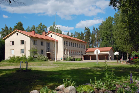 Venesjärvi School in Kankaanpää, Finland